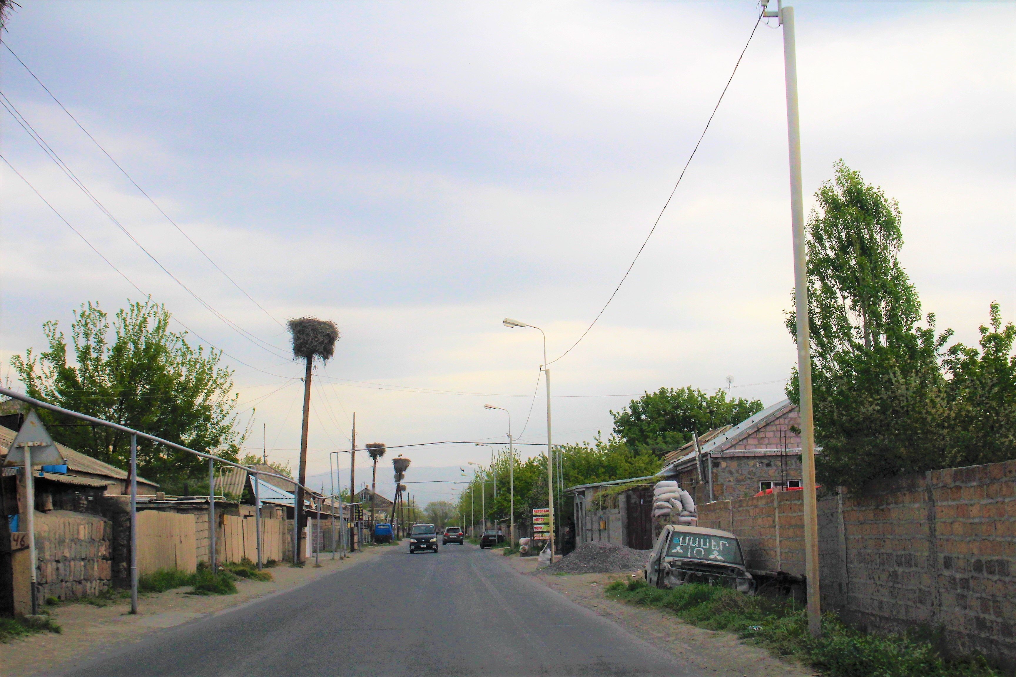 Hovtashat